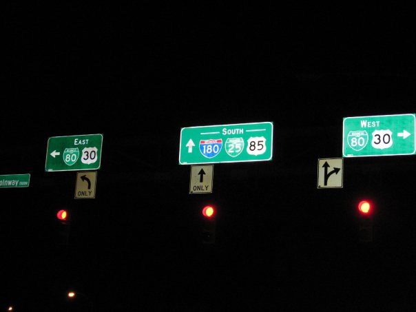 Interstate 180(Wyoming) northern terminus, looking at southbound signage.